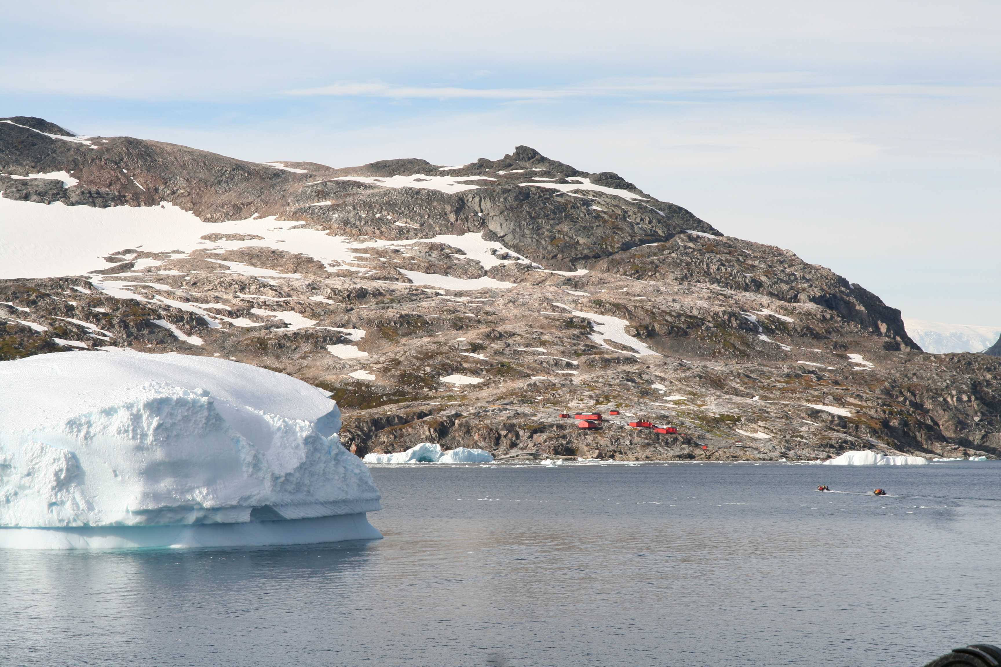 Base Primavera .Argentina scientific antartic base in Antarctica Peninsula located at Cierva Cove 64.09 South 60.57 West